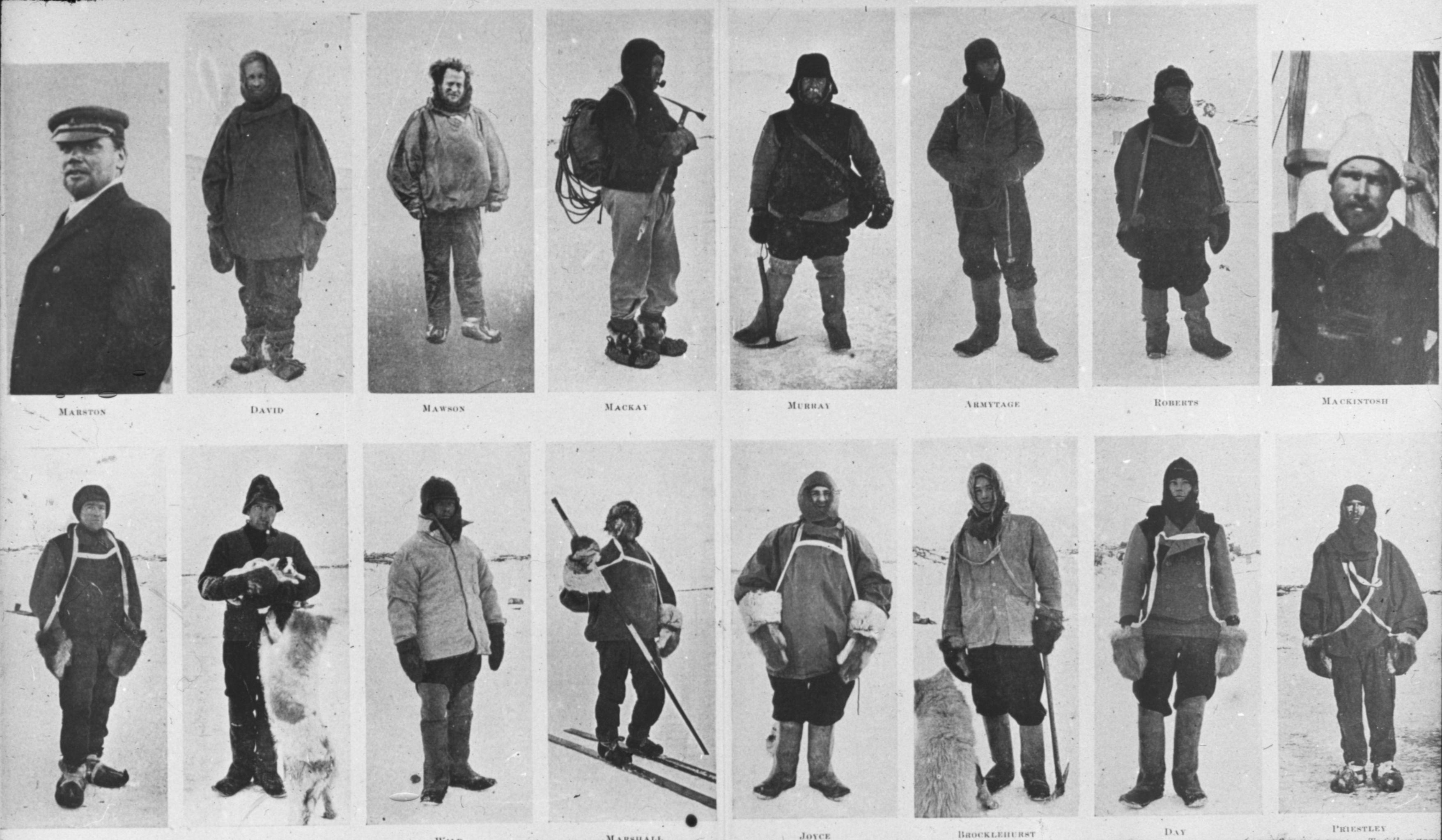 Photographs of the Nimrod Expedition (1907-09) to the Antarctic, led by Ernest Sheckleton